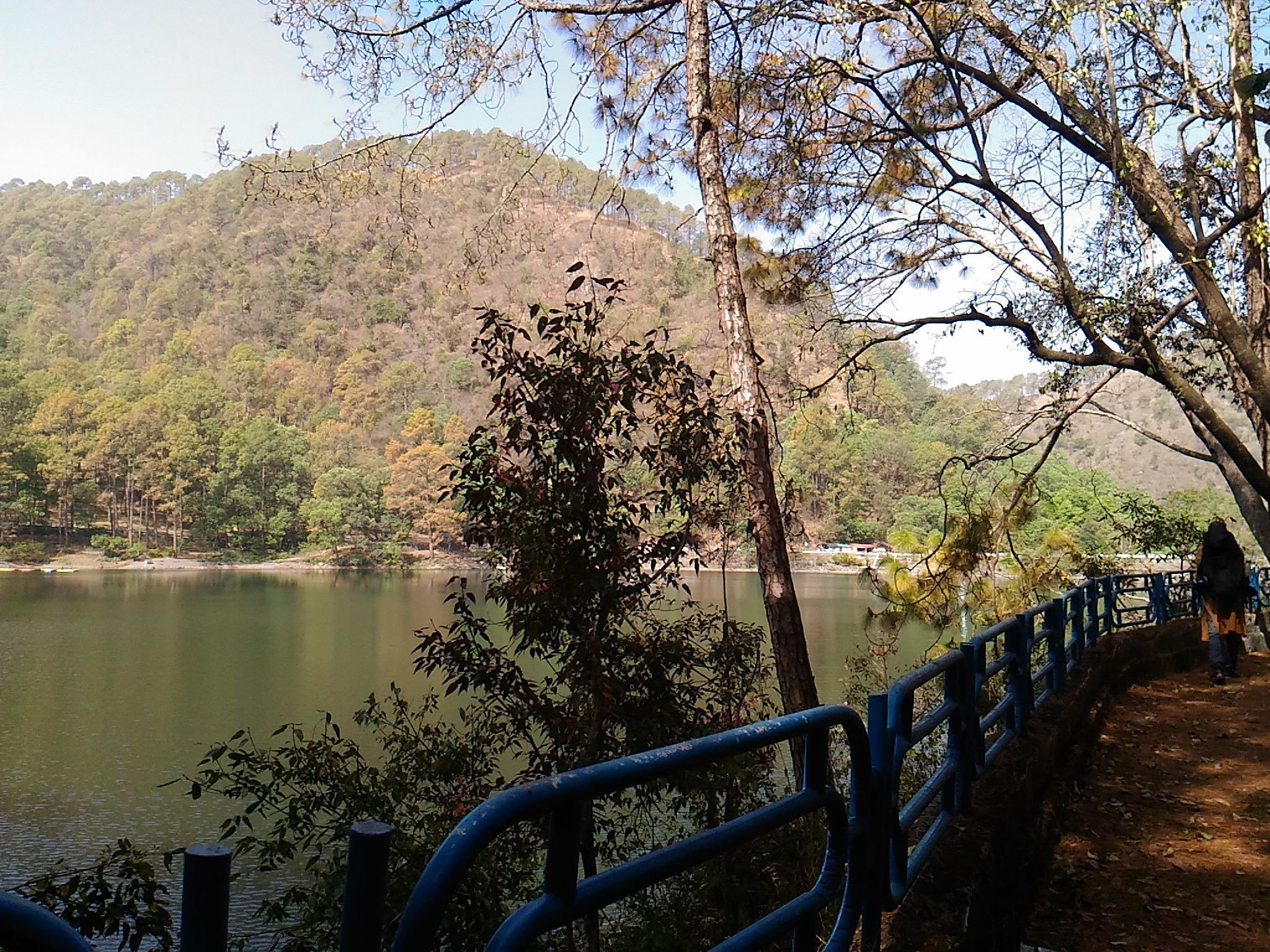 Sattal